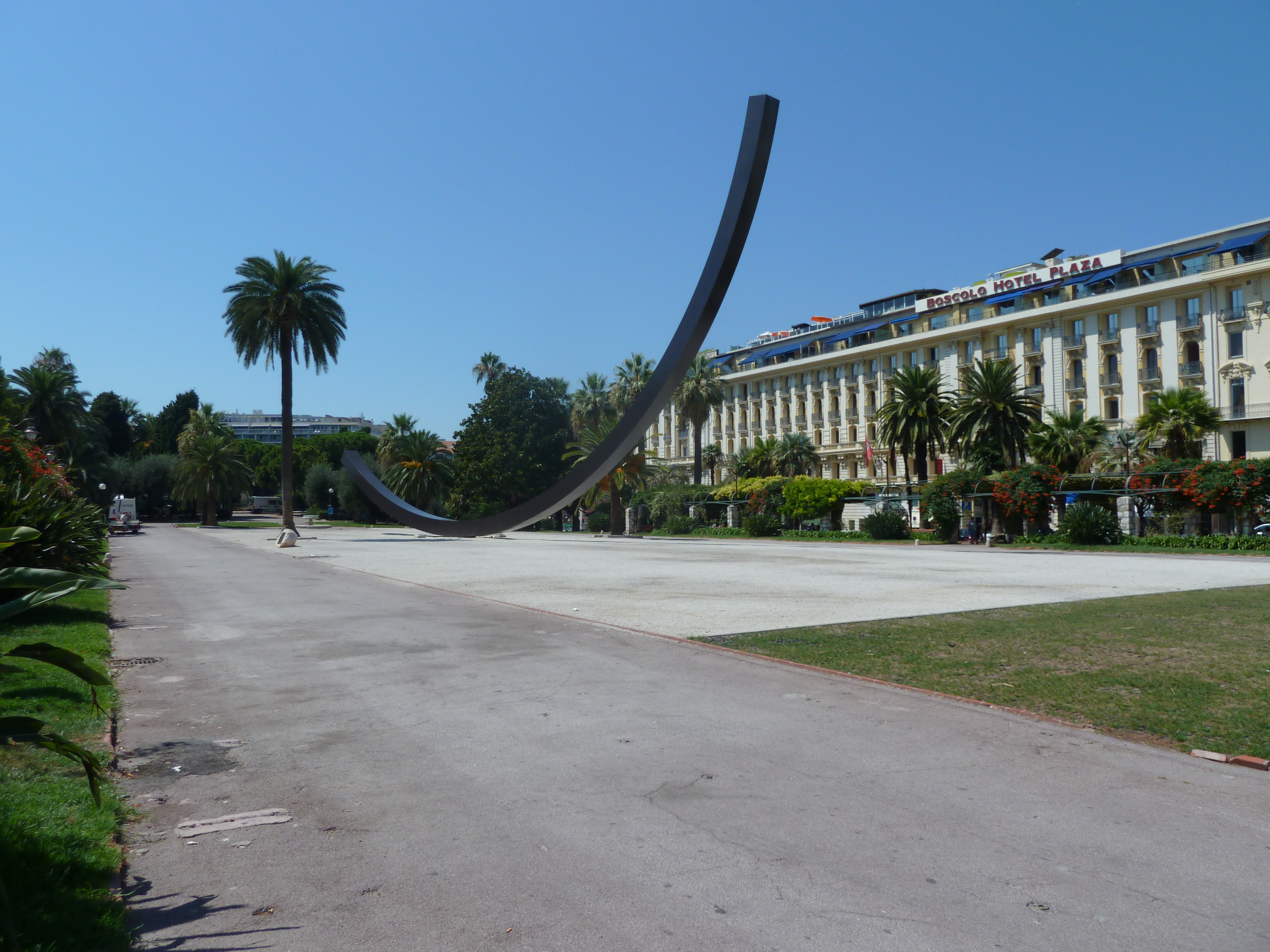 Arc Venet in garden Albert 1er in Nice